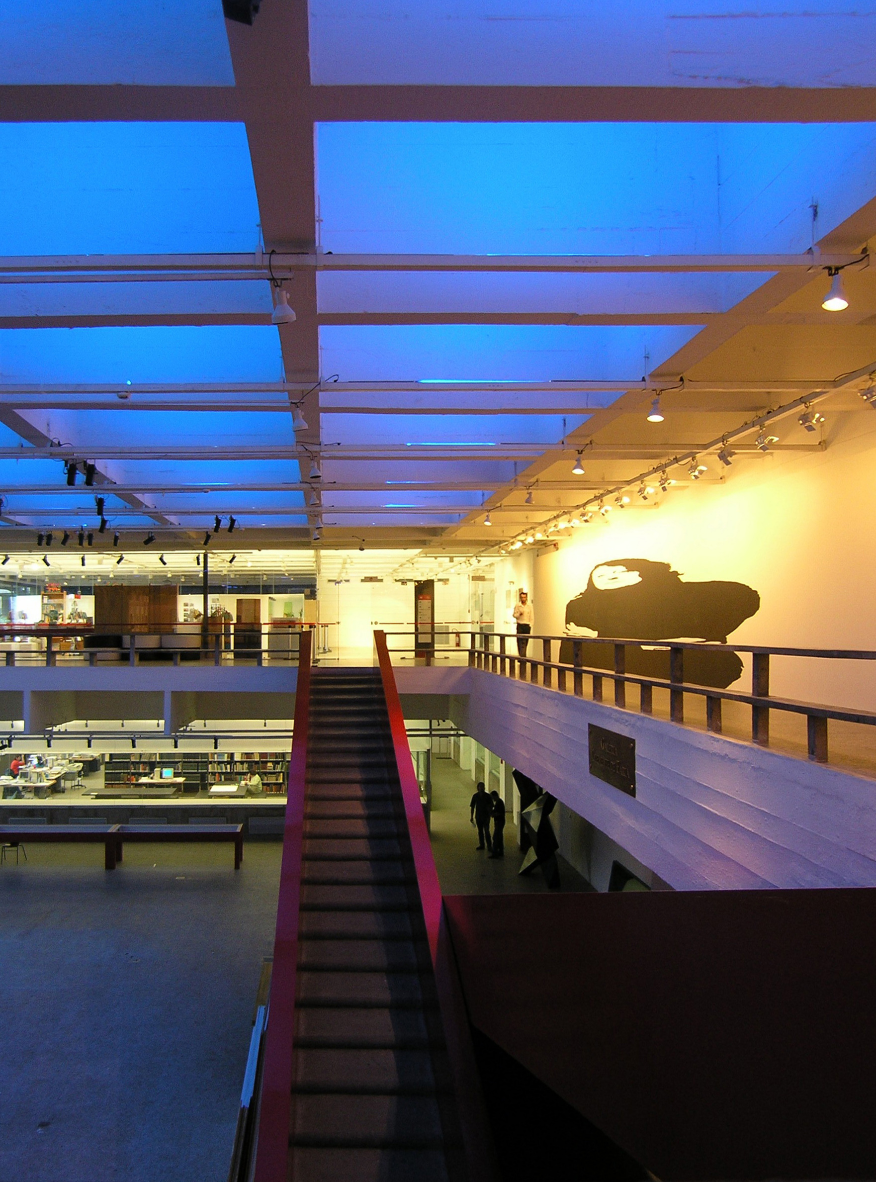 light and colour from lina bo bardi at her brilliant brutalist art museum MASP in são paulo, brazil on the right hand wall, a painting of an incredibly fat lina bo bardi who viewed under the right angle becomes only moderately fat. architect, lina bo bardi 1957-1968